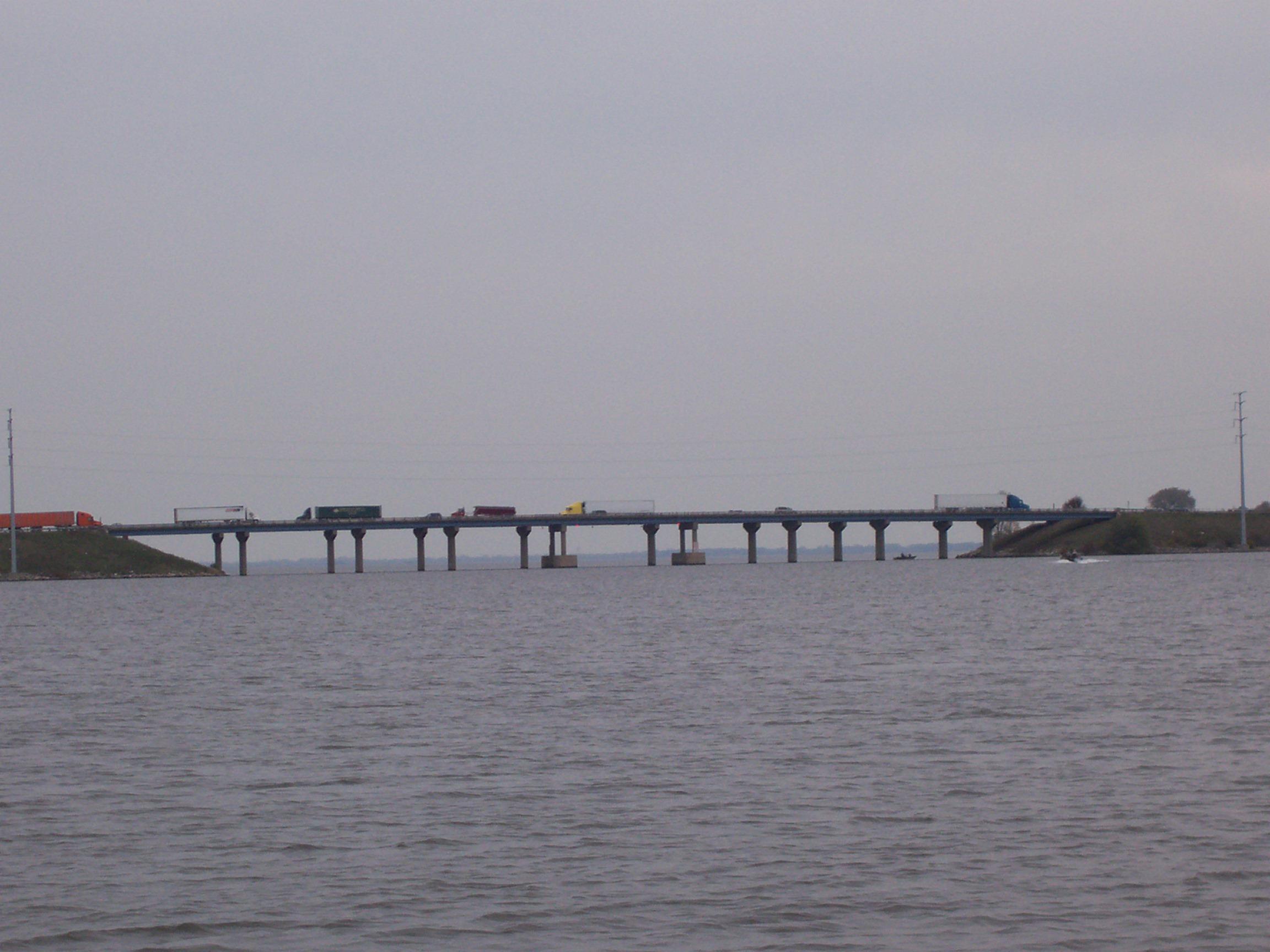 The U.S. Route 41 bridge through Lake Butte des Mortes in Oshkosh, Wisconsin, USA. Taken near a golf course. Taken prior to bridge reconstruction in 2010-11.